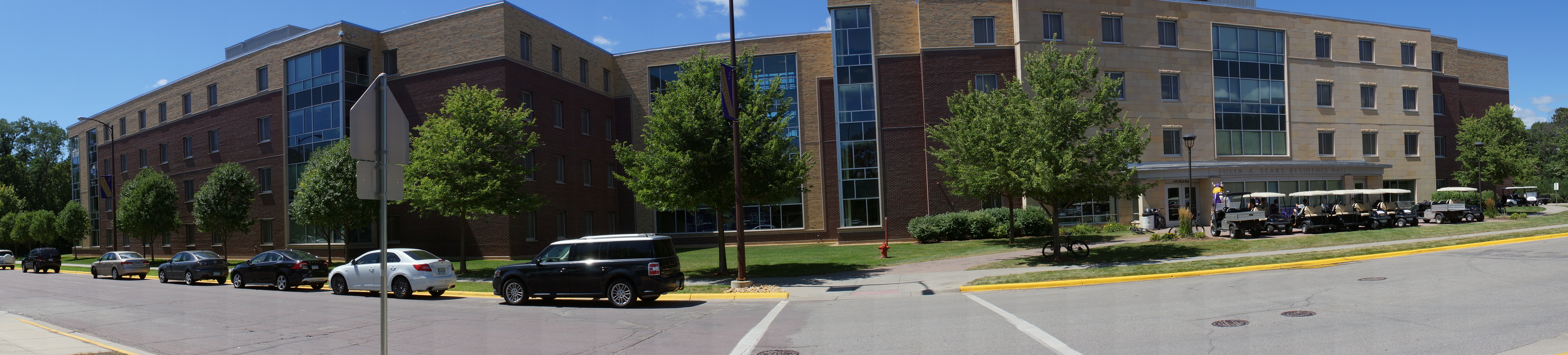 This is a panorama picture on the Minnesota State University, Mankato campus of Julia Sears and other residence halls.